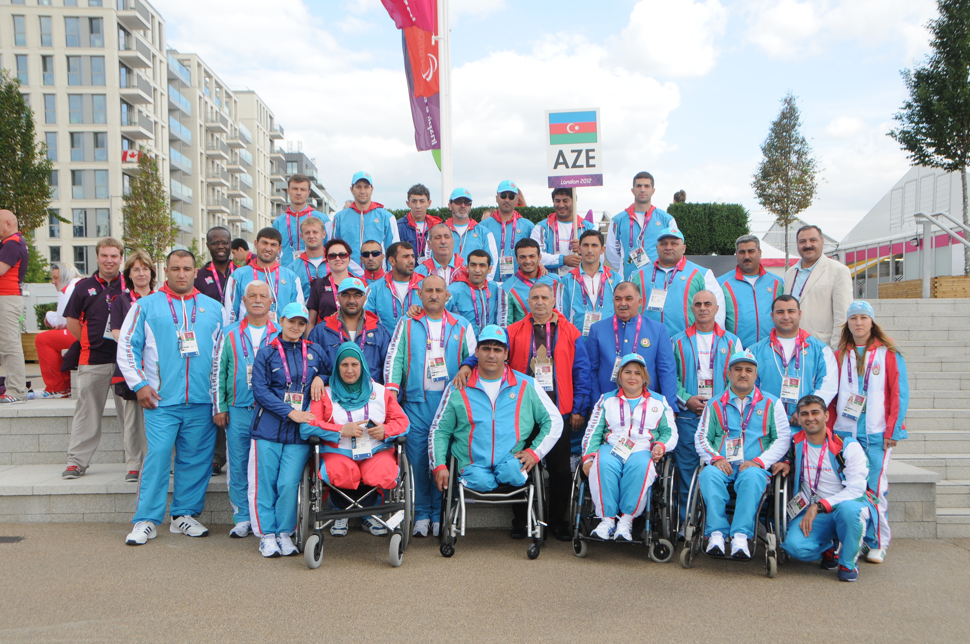 Azerbaijan team at the 2012 Summer Paralympics